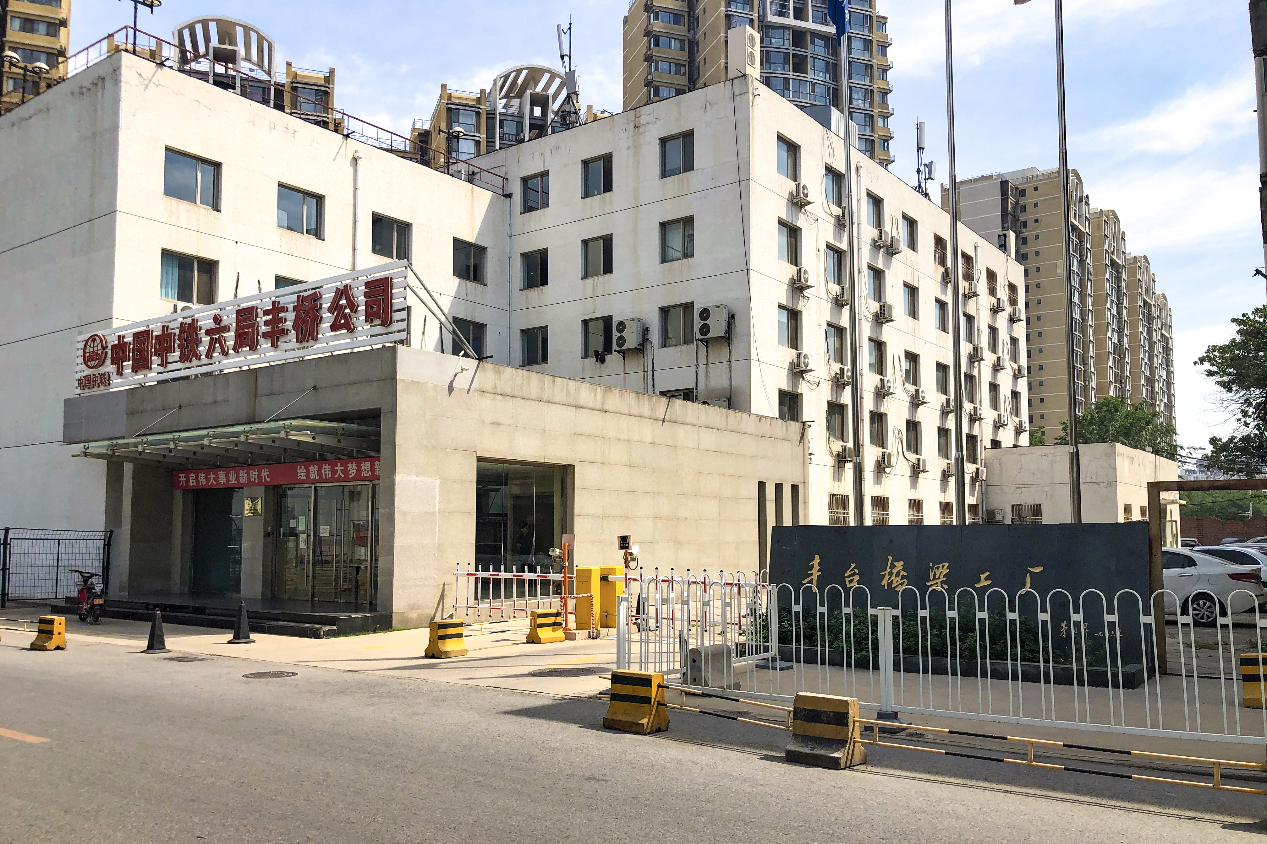 Old titles written by Mao Yisheng.